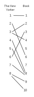 Comparison of Alice Munro's two versions of stroy "Save the Reaper" by section; table in German